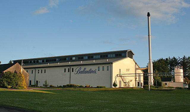 Building of the rebuilt Glenburgie distillery taken on Thursday, 9 June, 2011